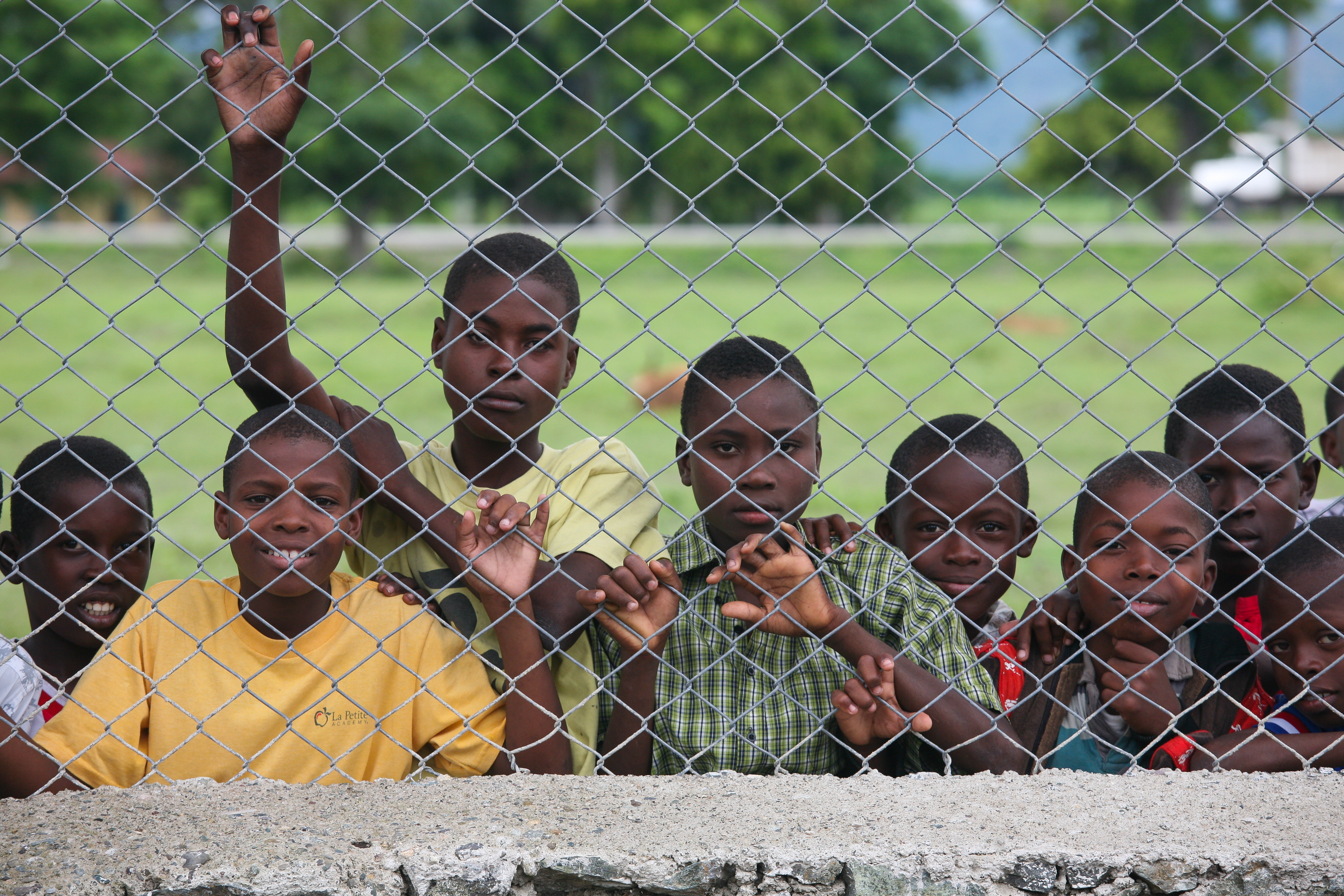 Children at the Fence